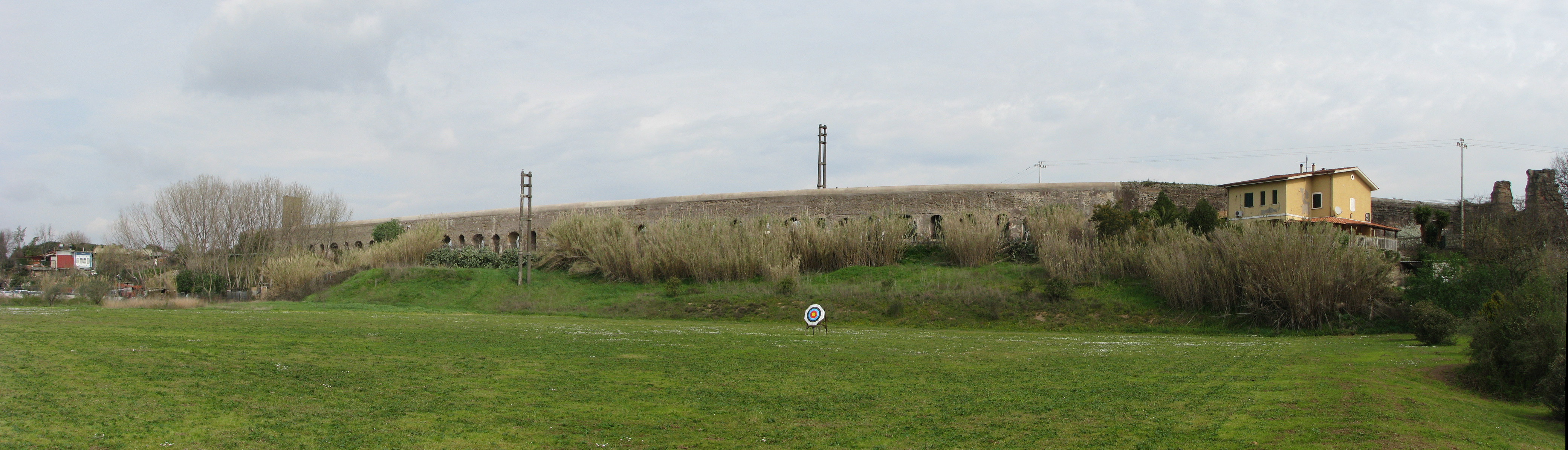 Aqua Felice from 1586, still in use today. Location south of Torre del Fiscale